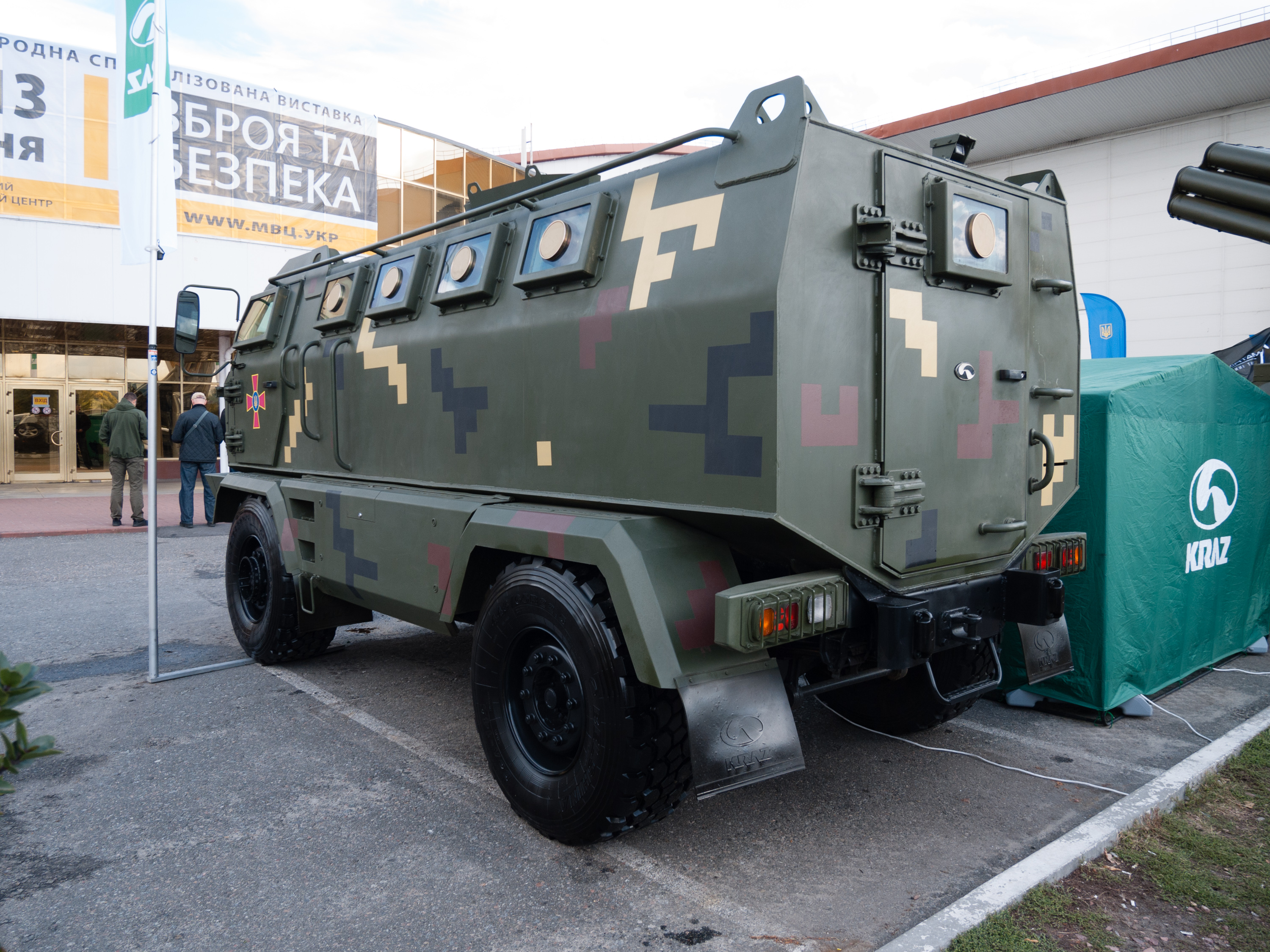 KrAZ Hulk armored vehicle (Ukraine)